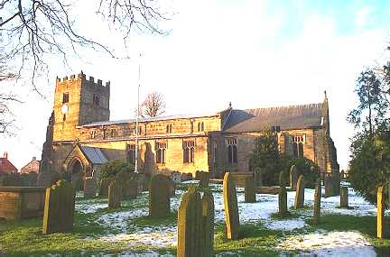 Easingwold, Church of St John The Baptist This Church is to the east of centre of the southern boundary line of the O/S grid which it occupies.